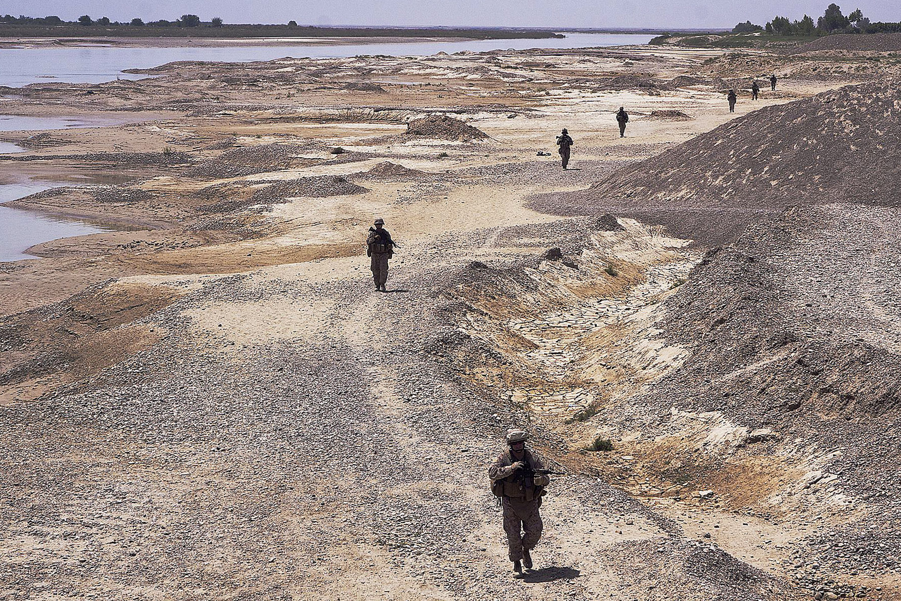 U.S Marines patrol along the Helmand River after visiting a local school in the Garmsir district in Afghanistan's Helmand province on April 26, 2011. The Marines are assigned to the 1st Battalion, 3rd Marine Regiment.